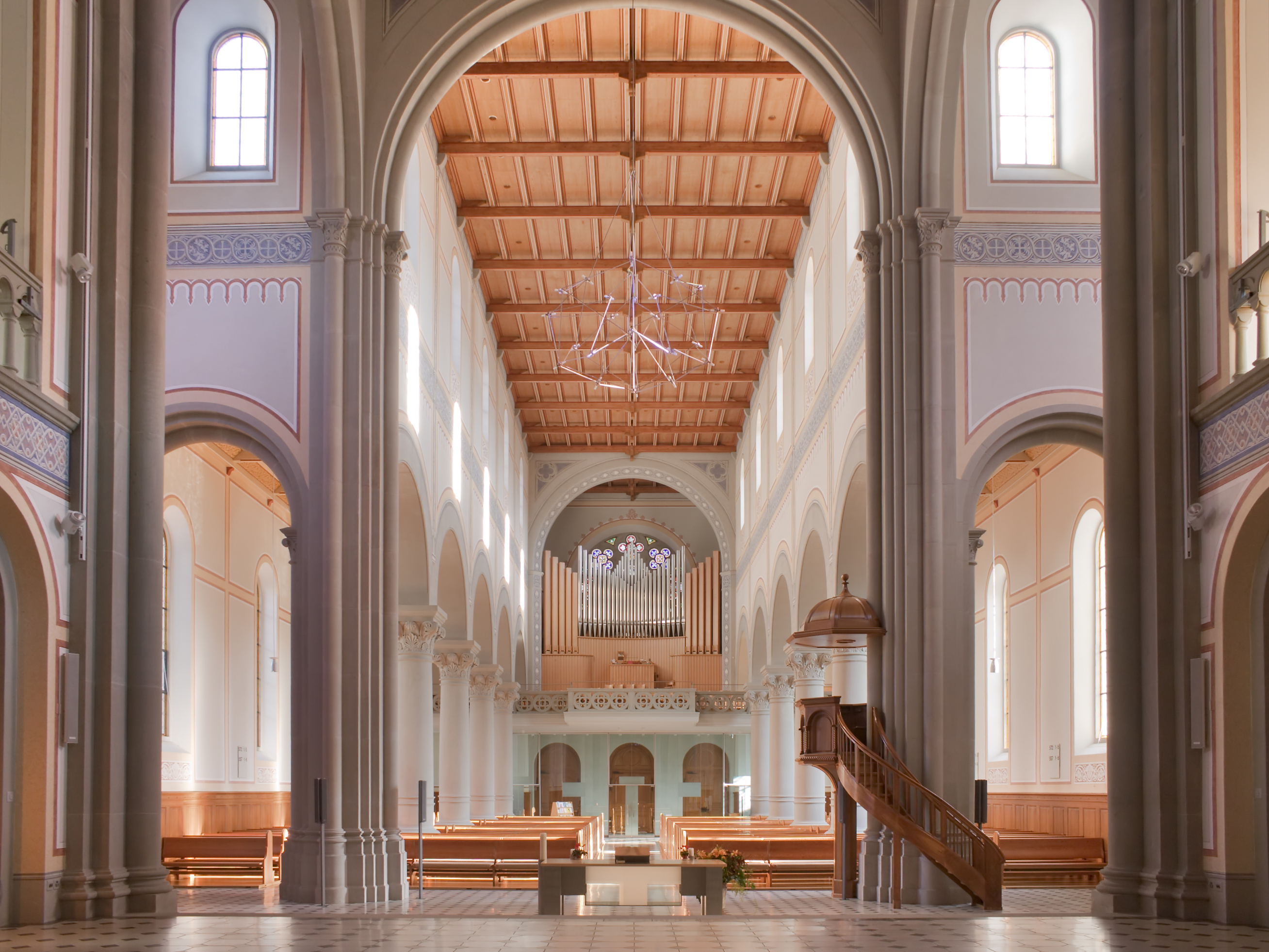 Nave and organ of the church in Glarus, Switzerland.